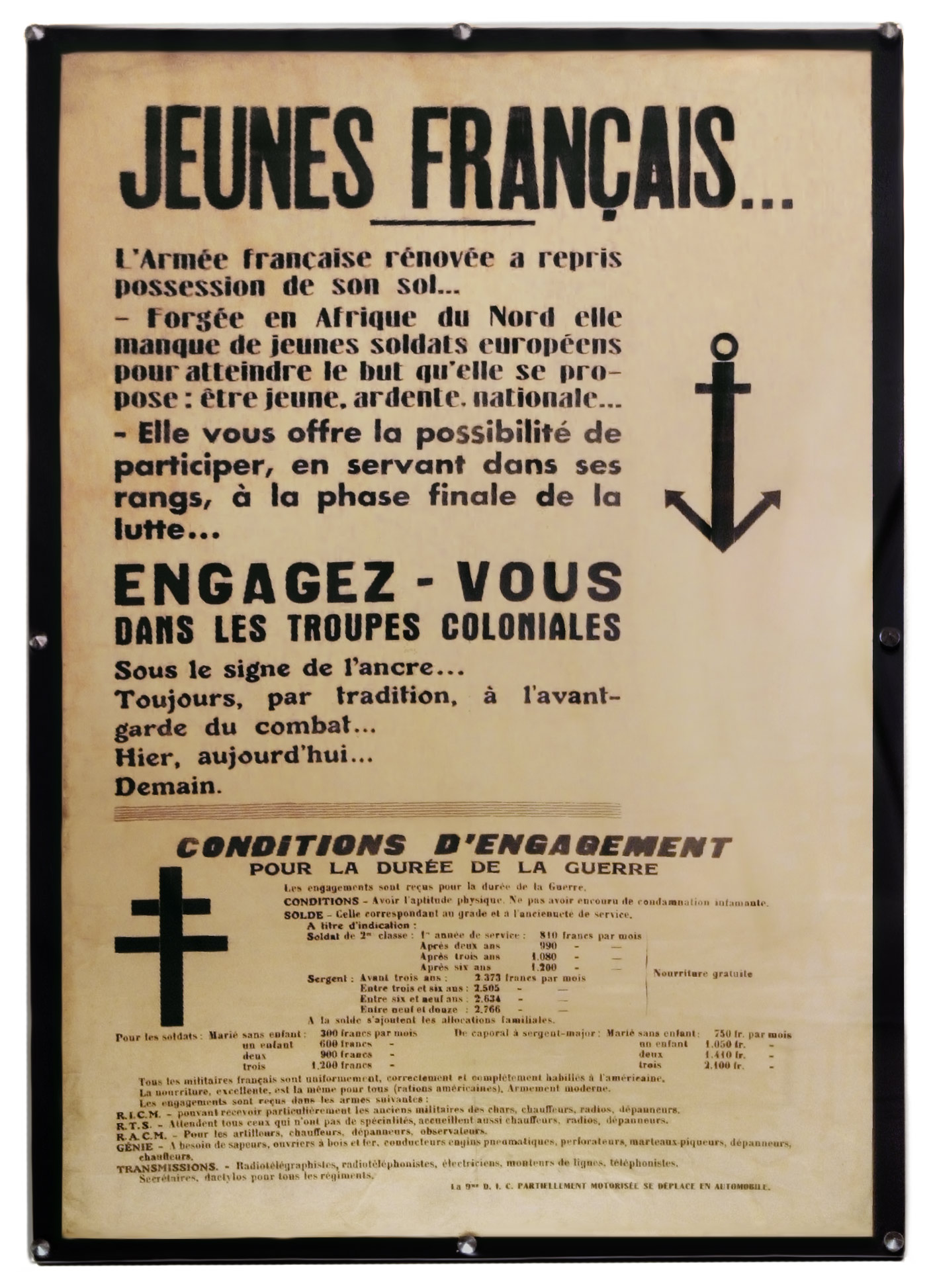 Photograph of an old poster inviting citizens to enlist in French Colonial Forces, after colonies of North Africa (Algeria, Tunisia) had been reconquered by the Allies in World War II. Note: This file has undergone extensive restoration to remove lighting effects and perspective distortion.